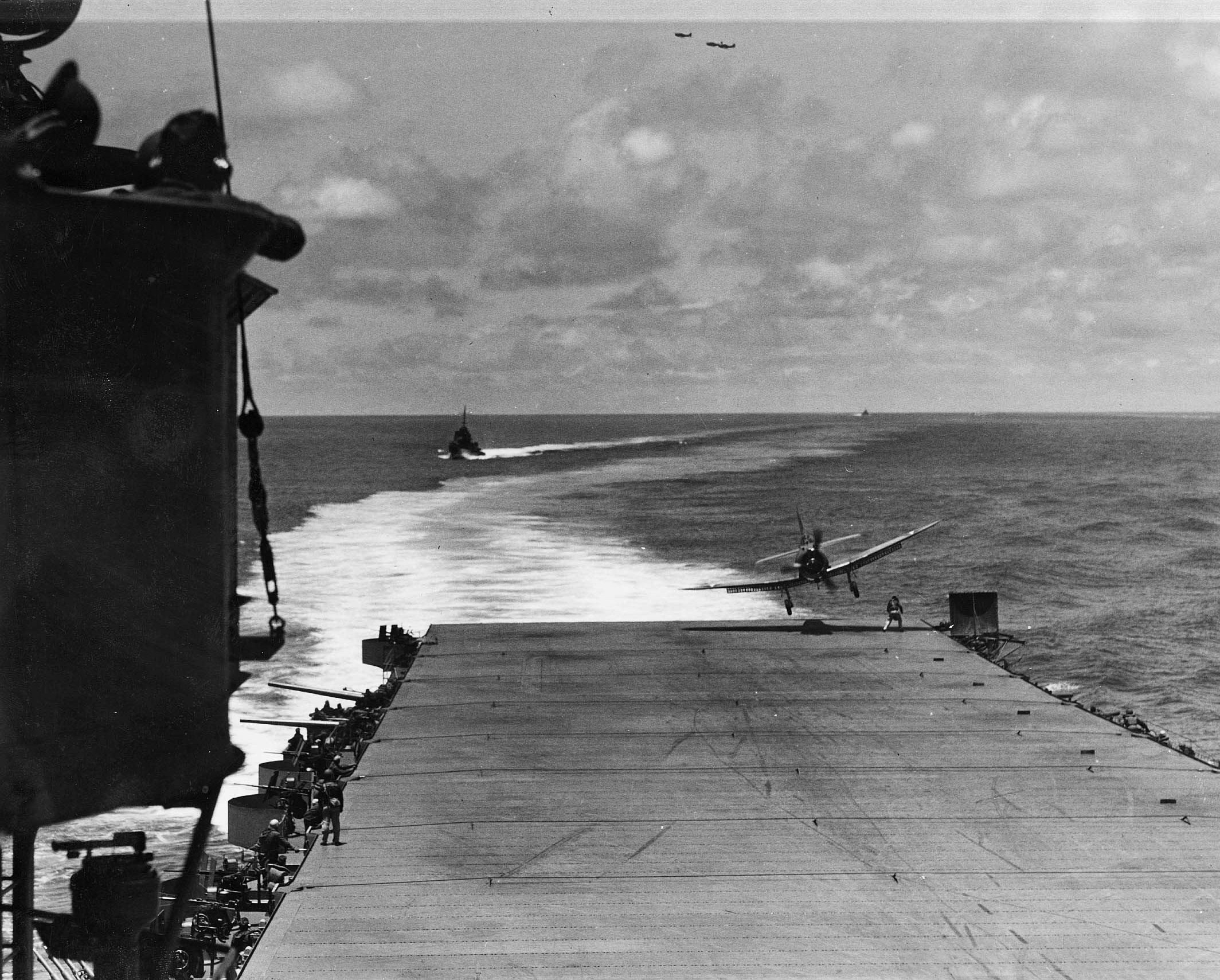 A U.S. Navy Douglas SBD-3 Dauntless of bombing squadron VB-8 landing almost on the LSO of the aircraft carrier USS Hornet (CV-8) during the Battle of Midway, 4 June 1942.